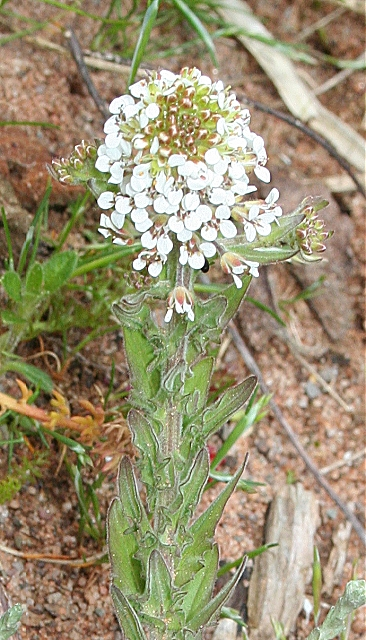 Downy Pepperwort (Lepidium heterophyllum). Lepidium campestre (Field Pepperwort) looks very similar, but looking at their distributions in Britain, the former is much more likely for Dumfries-shire. See 1393687 for a complete plant. Thanks to Quentin Groom for identification.